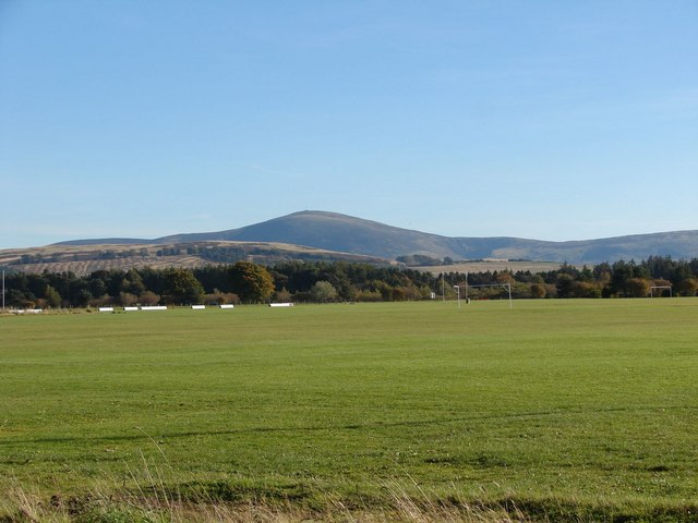 Tinto from Lanark Racecourse (1) Looking across the grounds at Lanark racecourse in fine autumn weather.